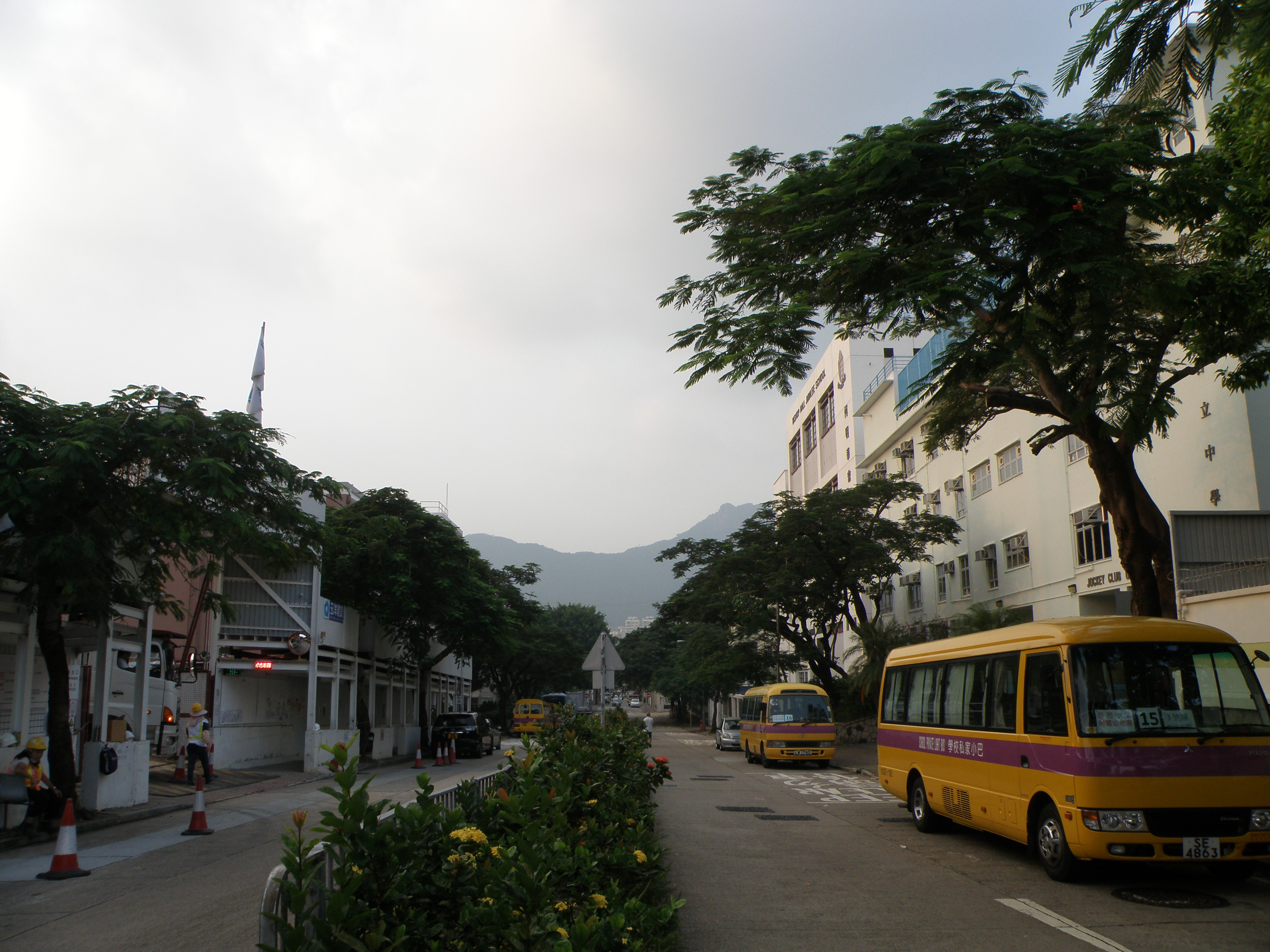 Oxford Road in Kowloon Tong, Hong Kong.